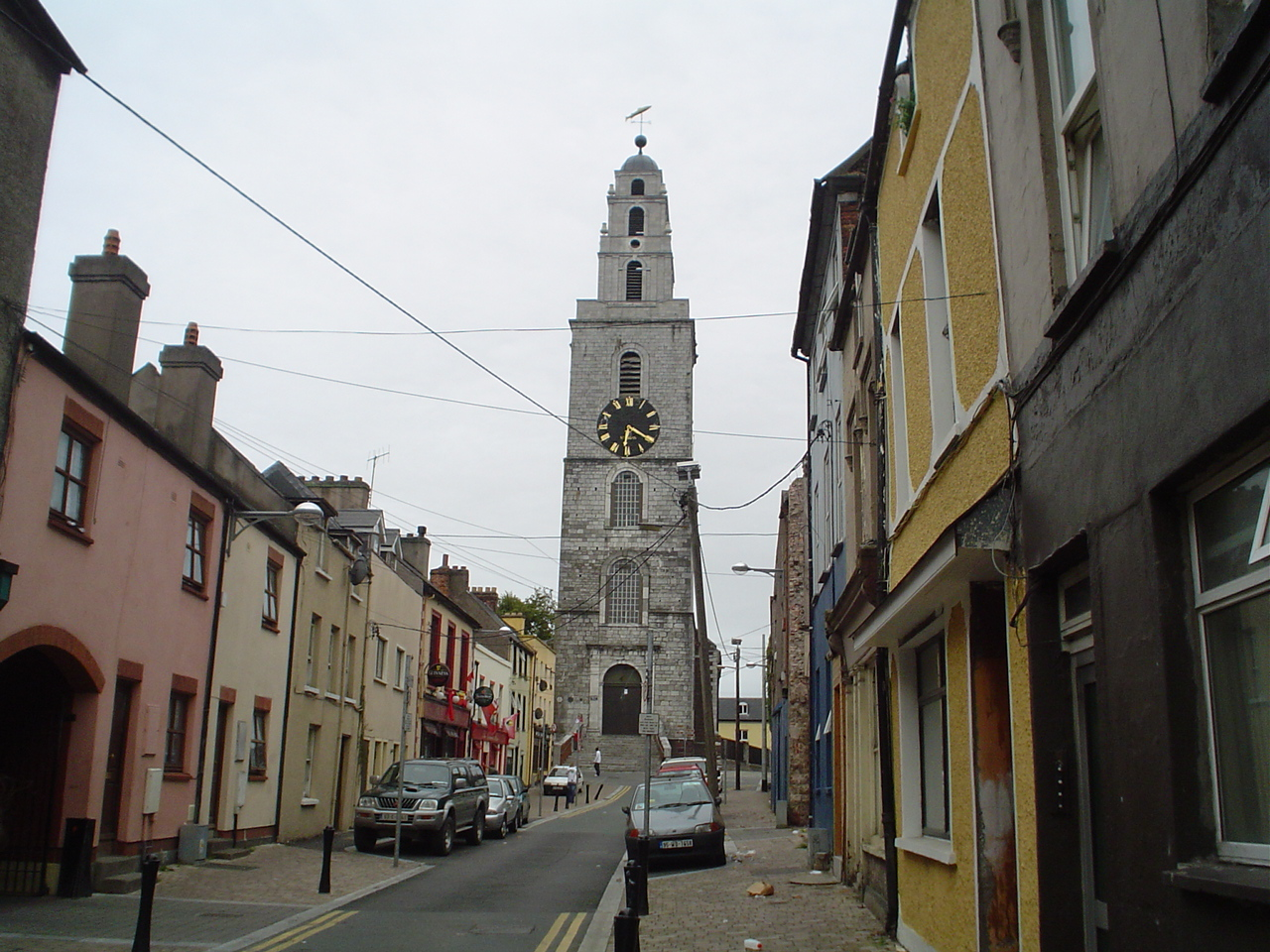 Cork - St. Ann's Church, Shandon